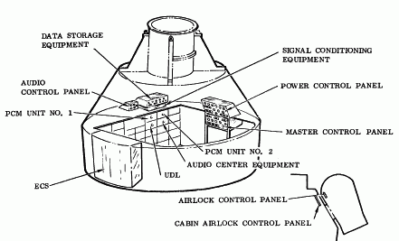 Apollo CM Lunar Shelter.